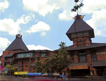 the first campus of Widya Mandala Catholic University Surabaya, Indonesia